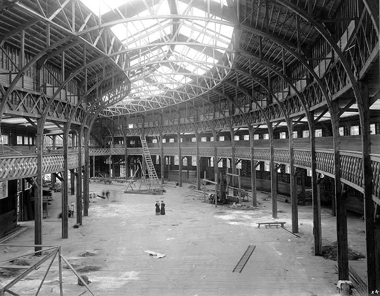 Manufactures Building construction, Alaska-Yukon-Pacific Exposition, Seattle, Washington, March 8, 1908 Photographer: Nowell, Frank H., 1864-1950 Subjects (LCSH): Manufactures Building (Seattle, Wash.) Building construction--Washington (State)--Seattle Alaska-Yukon-Pacific Exposition (1909 : Seattle, Wash.) Exhibitions--Washington (State)--Seattle Digital Collection: Alaska-Yukon-Pacific Exposition Collection Item Number: AYP501 Persistent URL: University of Washington Libraries. Digital Collections [#//content.lib.washington.edu%20